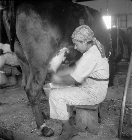 Milking cow experienced calm